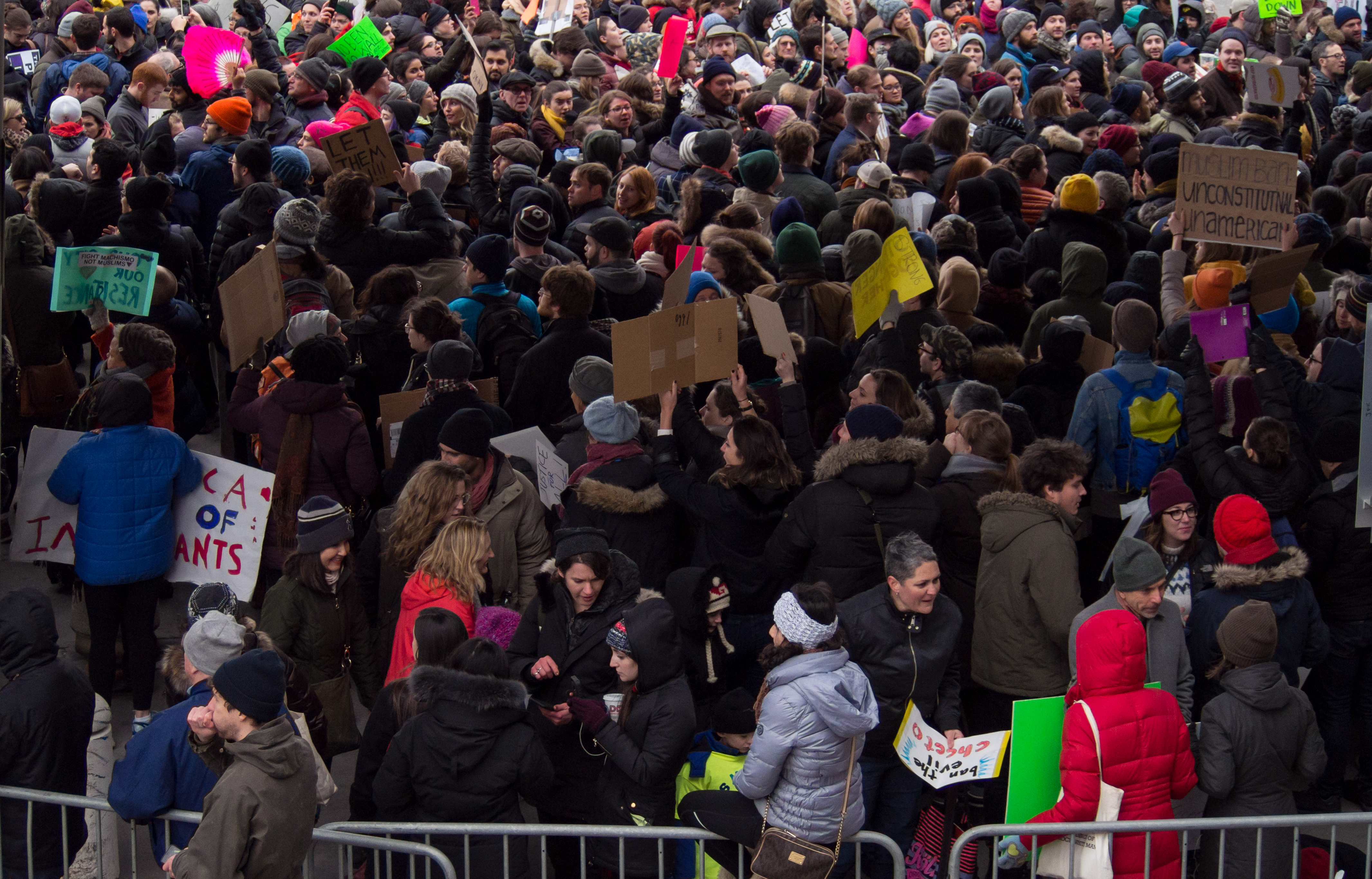 Protest at John F. Kennedy International Airport (JFK), Terminal 4, in New York City, against Donald Trump's executive order signed in January 2017 banning citizens of seven countries from traveling to the United States (the executive order is also known as "Protecting the Nation from Foreign Terrorist Entry into the United States").